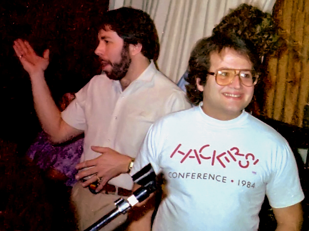 Steve Wozniak and Andy Hertzfeld talking to members of the Wellington Apple Users Club in 1985 (Steve's second visit). Wellington, New Zealand.